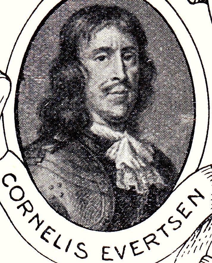 Cornelis Evertsen